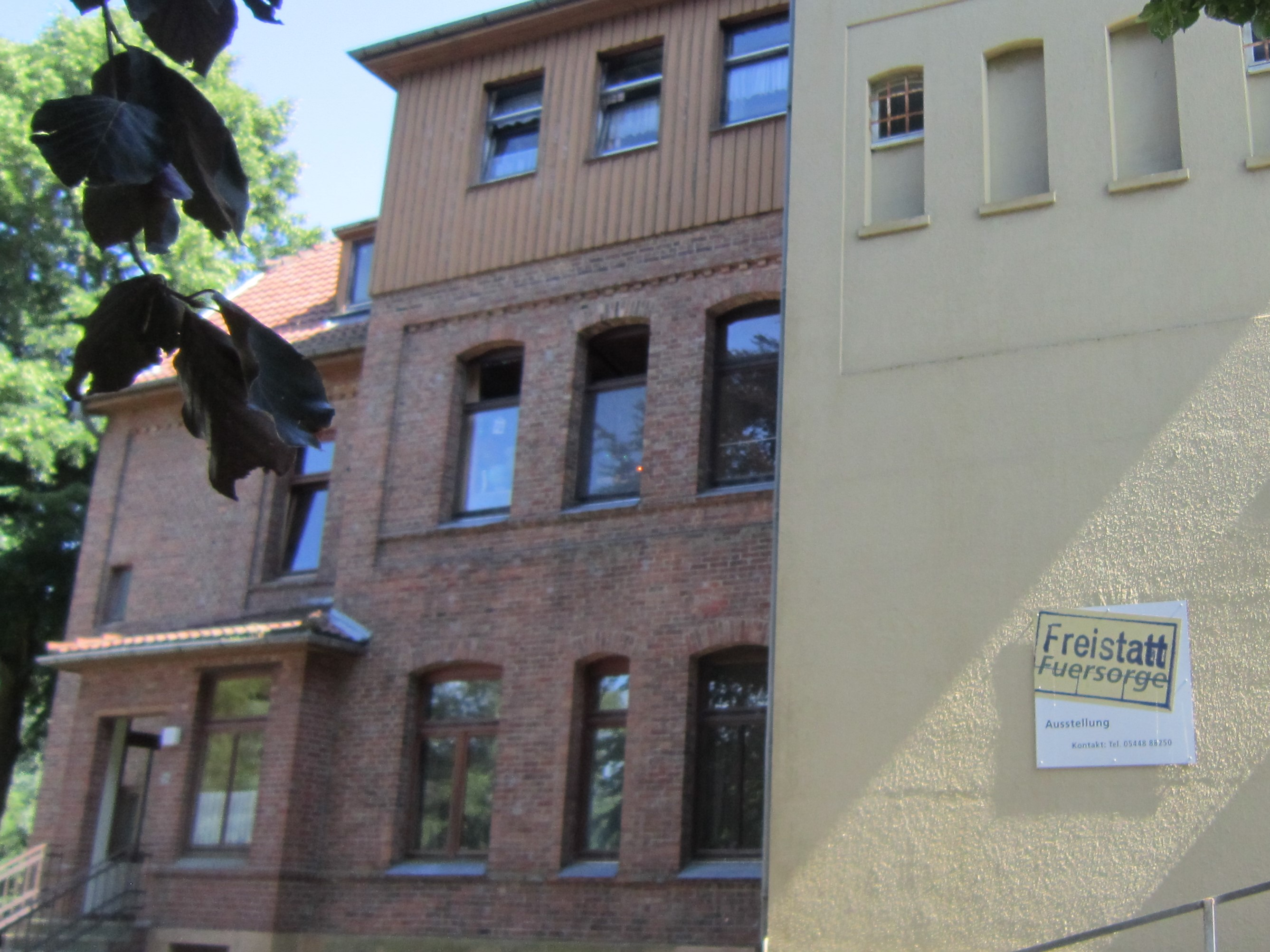 House "Moorhort" in Freistatt (Landkreis Diepholz, Lower Saxony) in July 2015